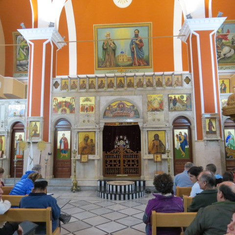 Greek Catholic Church of Peter and Paul, Shefaram, Israel